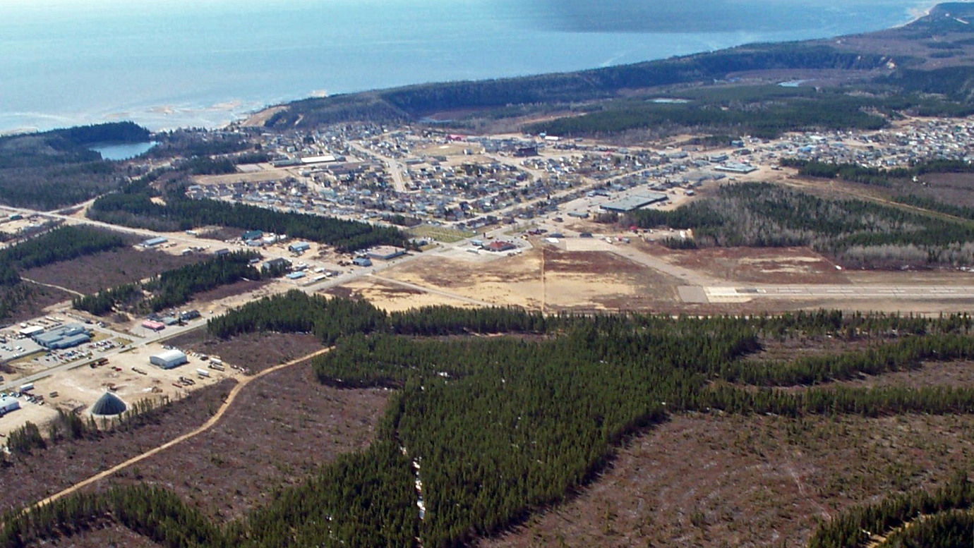 Aerial view of Forestville, Quebec, Canada